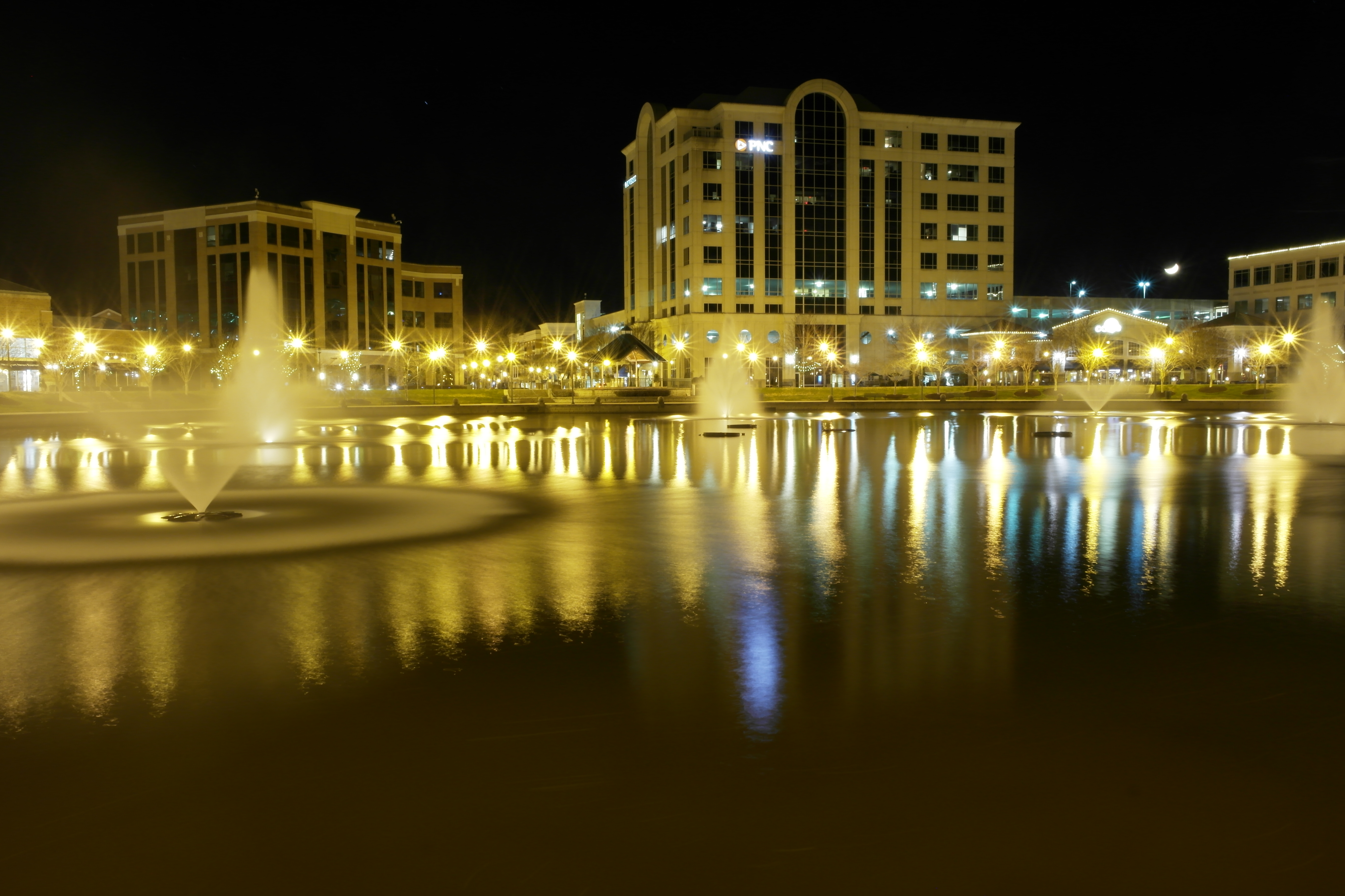 City Center at Oyster Point taken at night. Fountain Plaza One can be seen in the distance.